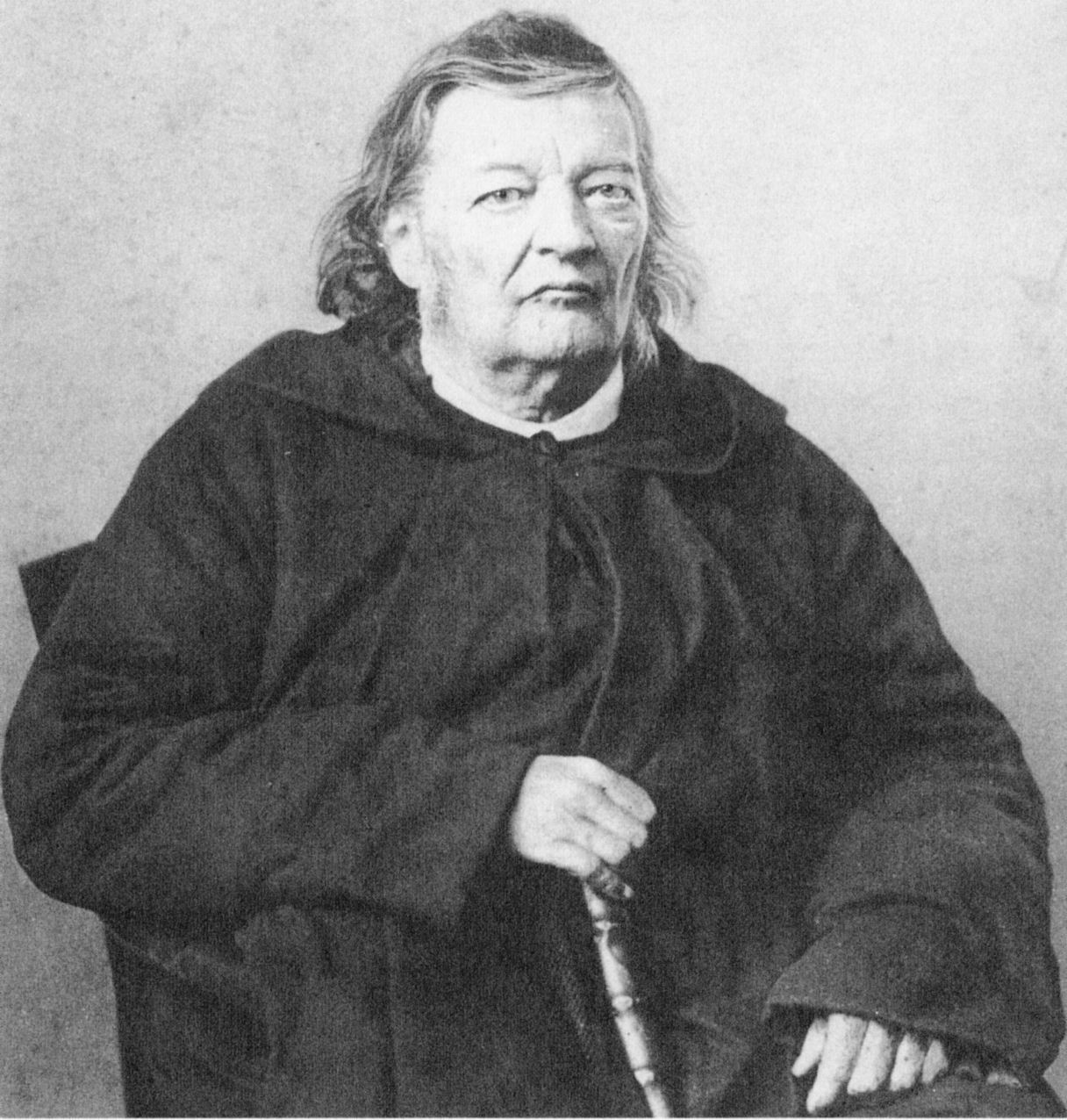 Picture of Justinus Kerner in old age, taken a few years before his death